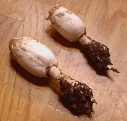 Two young Coprinus comatus or "shaggy mane" mushrooms, recently picked and lying on their side.